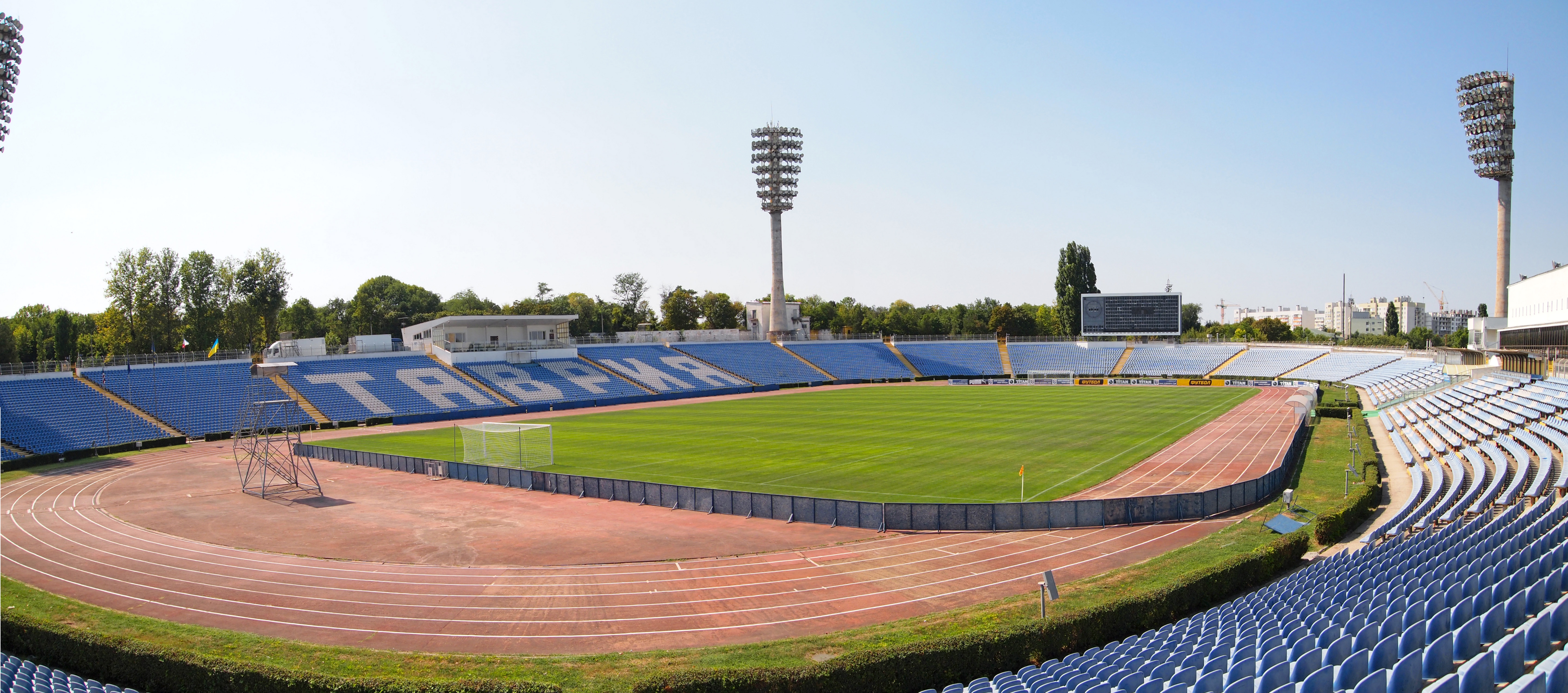 Panoramic view of Lokomotiv Stadium in Simferopol. This photograph was taken with an Olympus E-PL1